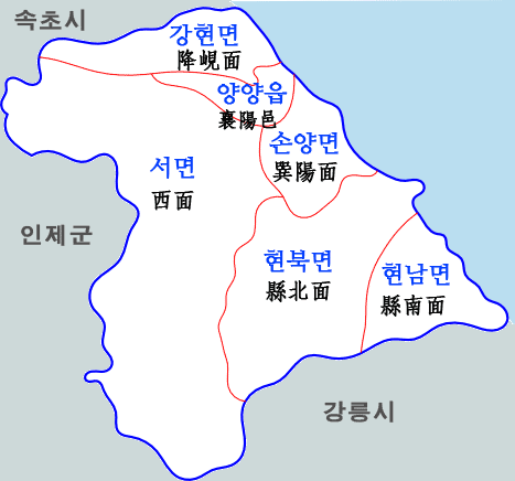 Yangyang-gun detail map